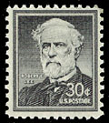 US stamp honoring Robert E. Lee